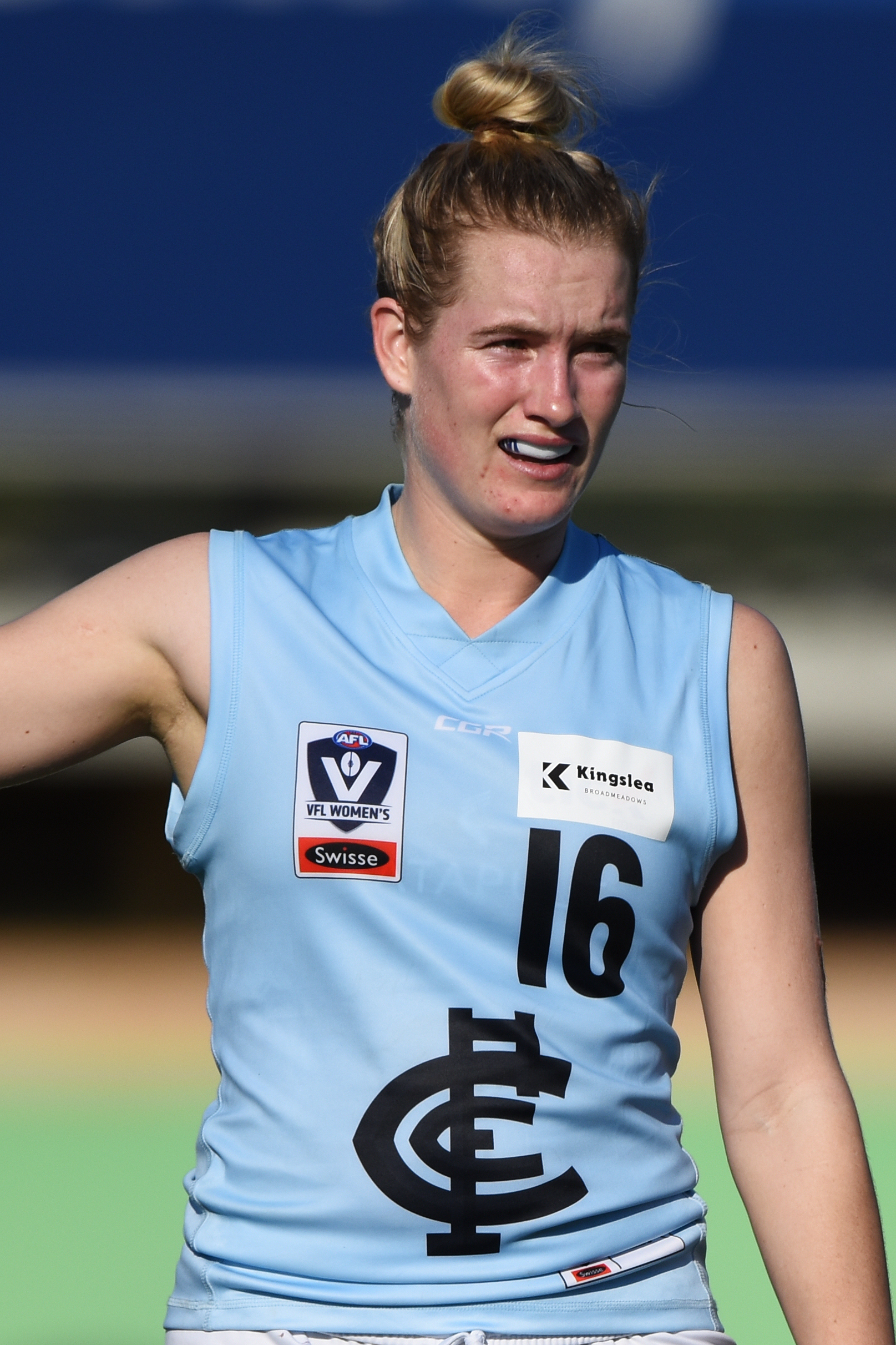 Breann Moody of Carlton during the 2019 VFLW round 9 match between NT Thunder and Carlton at TIO Stadium on Saturday, 6 July 2019 in Darwin, Northern Territory.